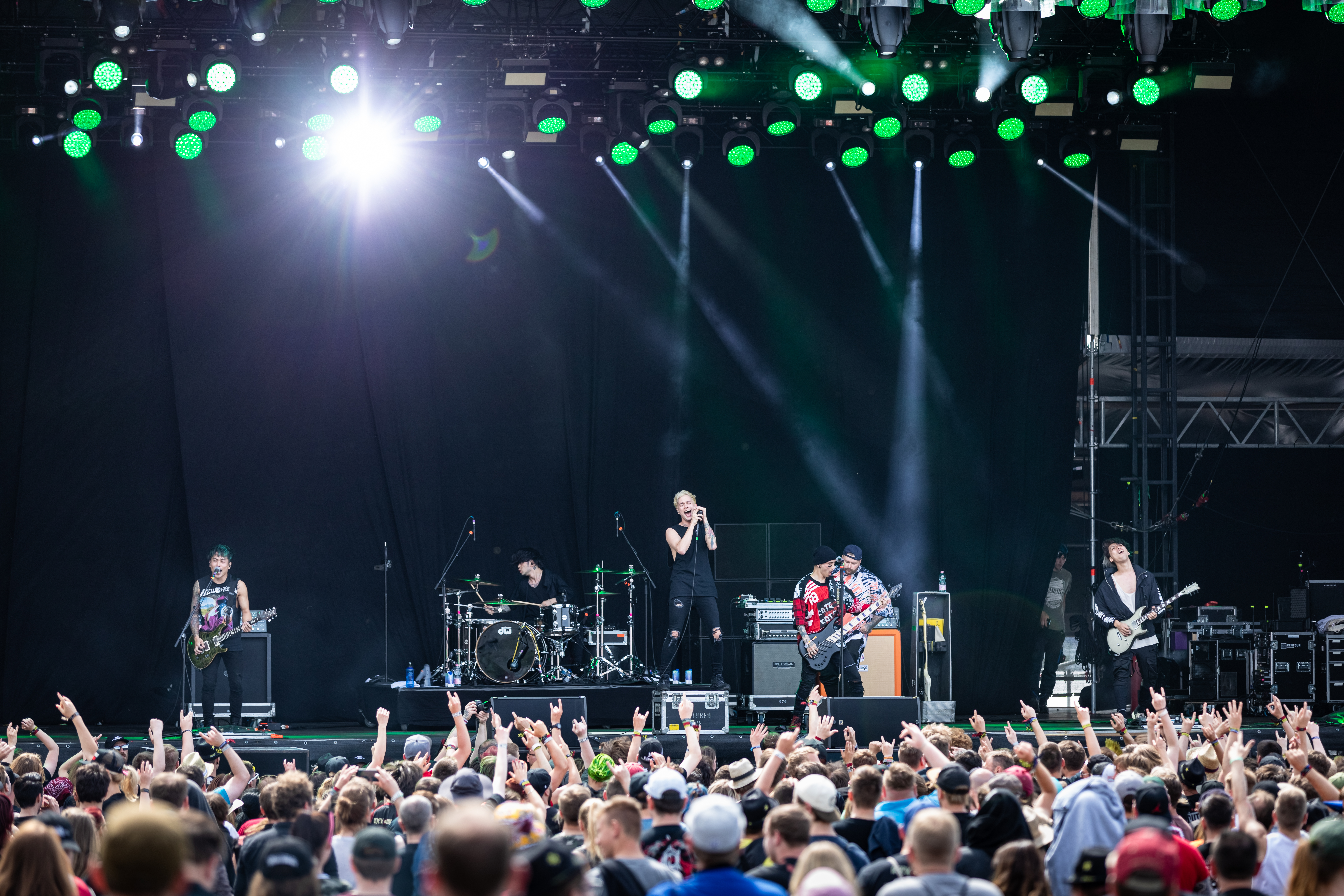 Coldrain - Rock am Ring 2019